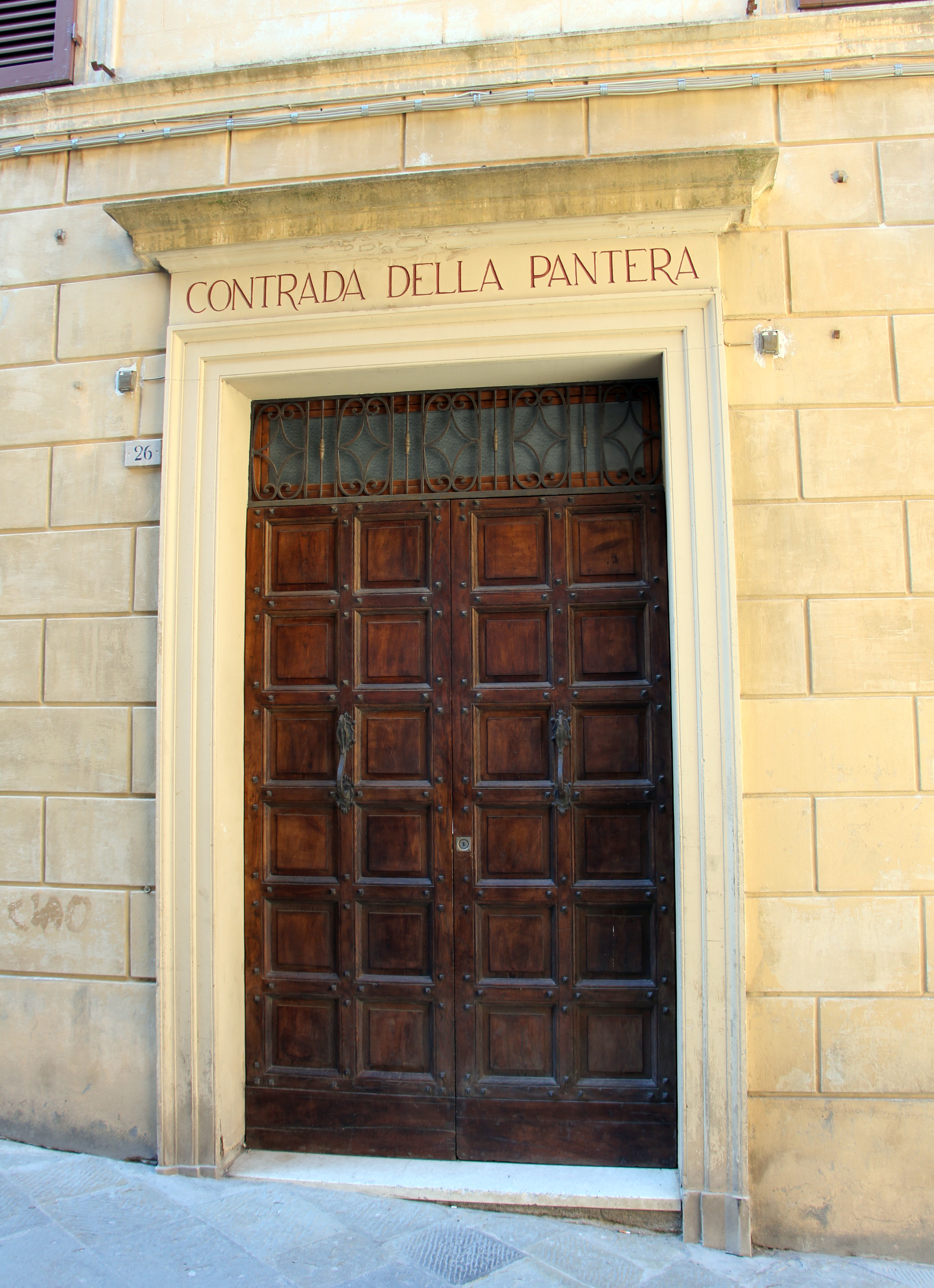 Via di San Quirico (Siena)